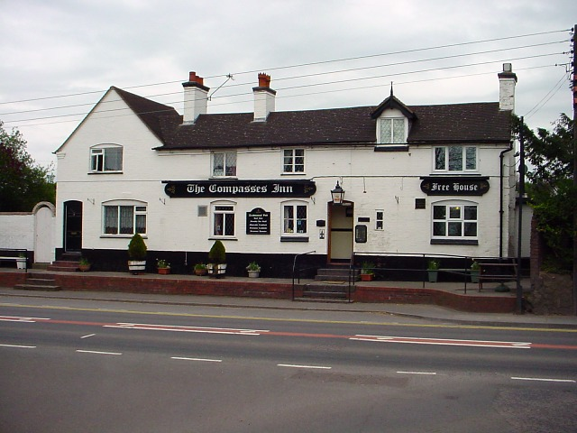 The Compasses Inn, Bayston Hill This public house is situated on Hereford Road (A49) in Bayston Hill.